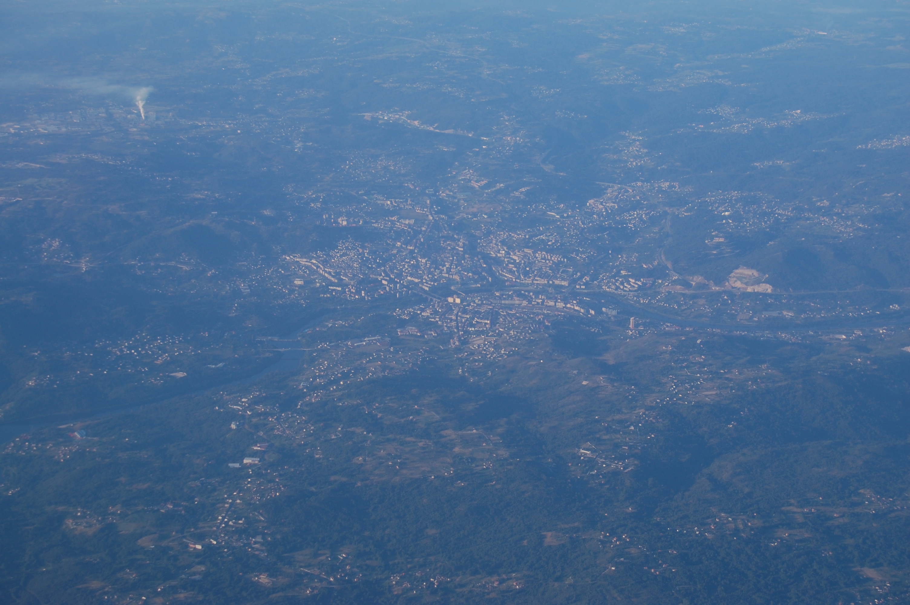 Aerial view of Ourense, Galiza, Spain.